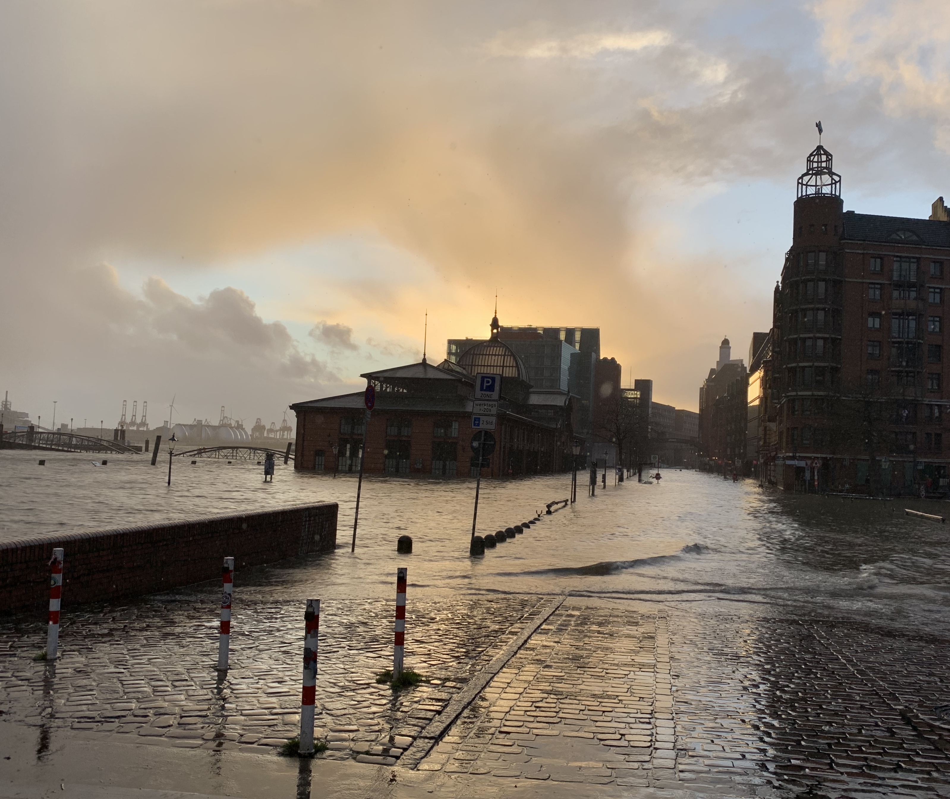 Fishmarket in Hamburg in water, storm Sabine February 2020.